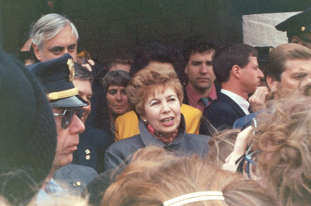 Raisa Gorbachev